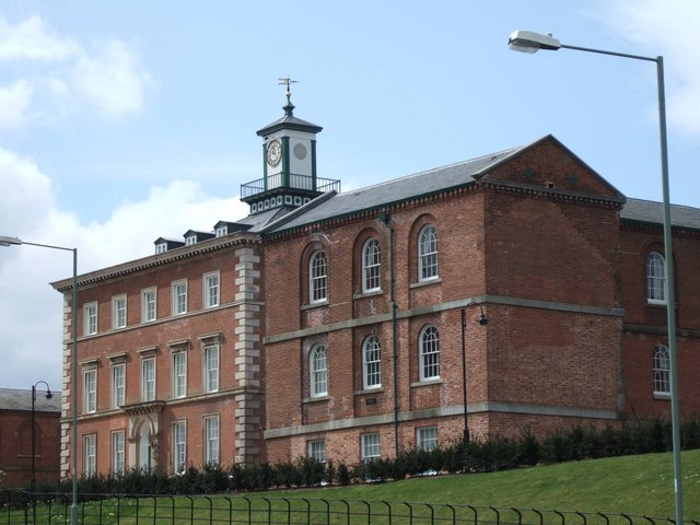 Part of the former Devon County Asylum, now converted into apartments, known as Devington Park. Exminster